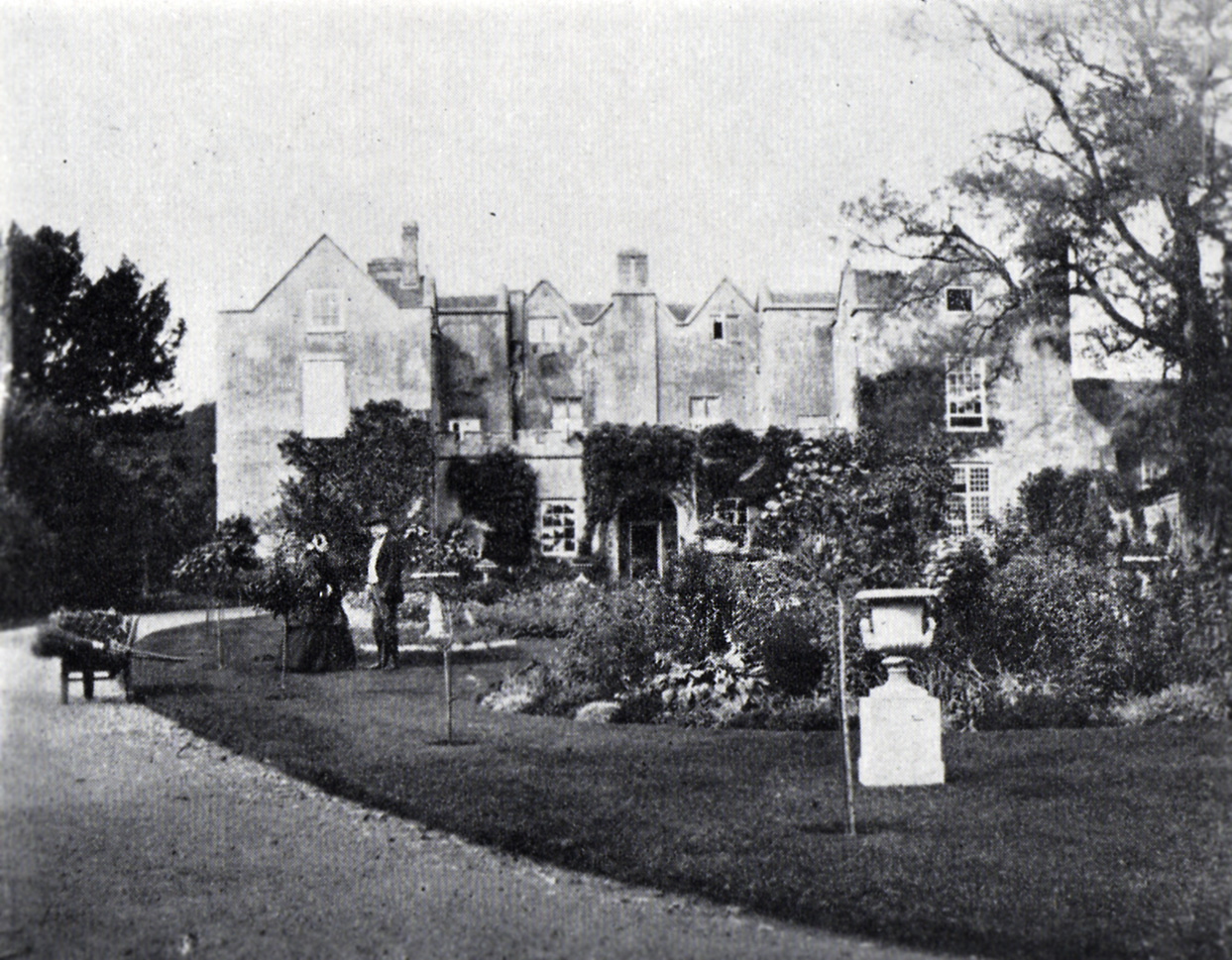 Berkhamsted Place, Berkhamsted, Hertfordshire, UK, photographed c.1860 when the home of General Finch.